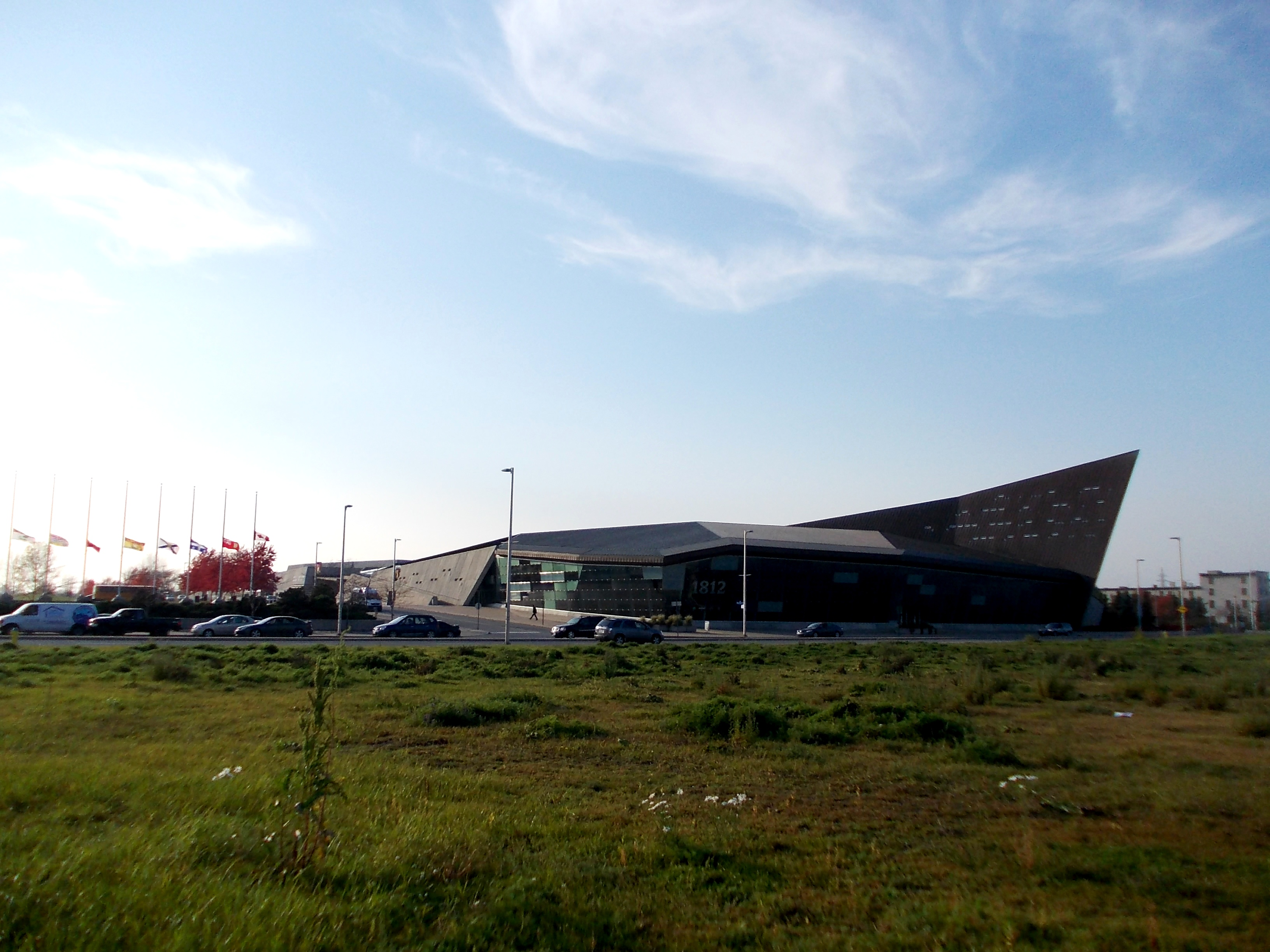 Canadian War Museum in Ottawa